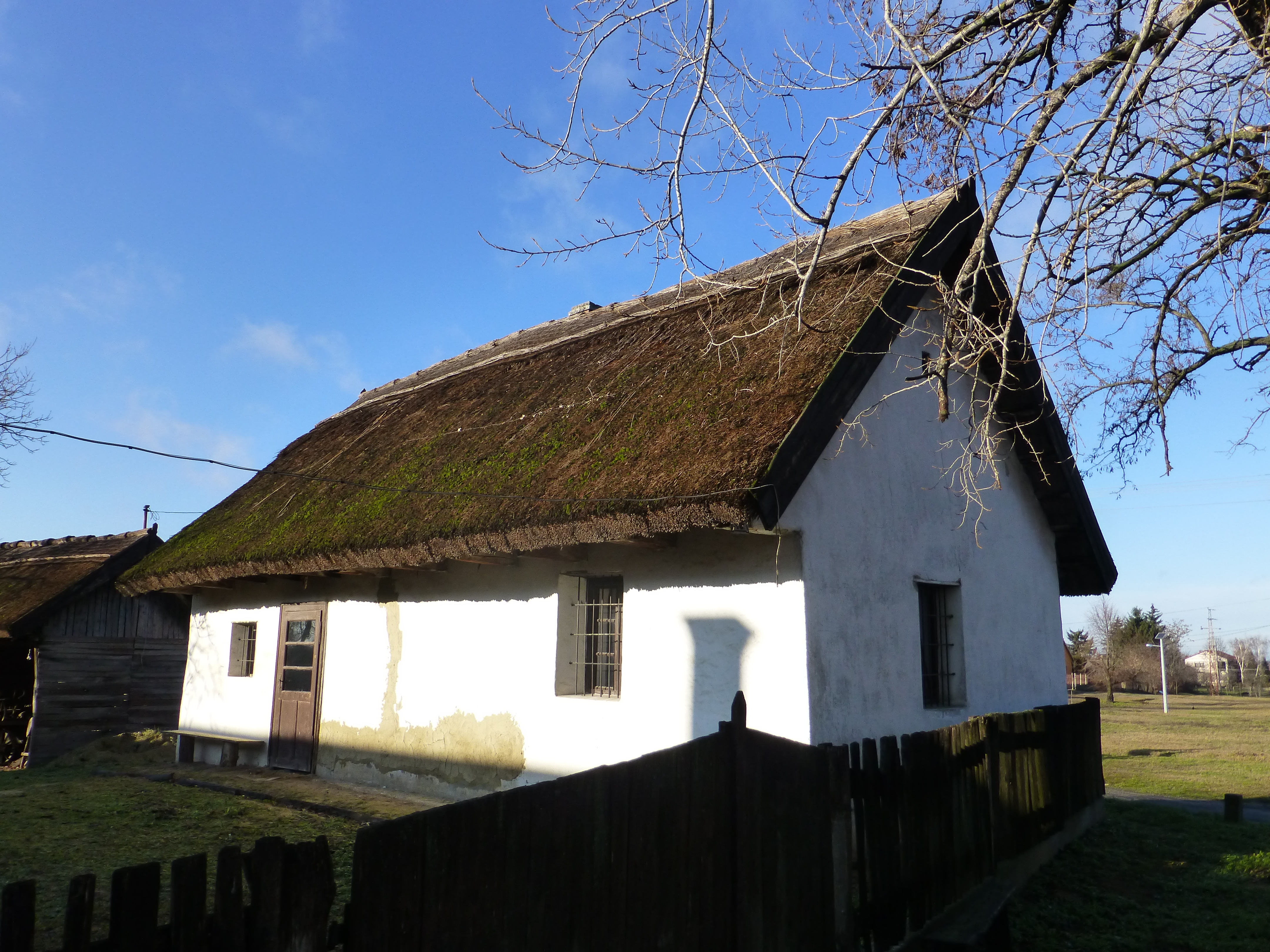 Örkény, Arany János utca 46. Traditional home of an poor peasant family. Reconstructed as village museum in the 1990s. (For more picture see the category)